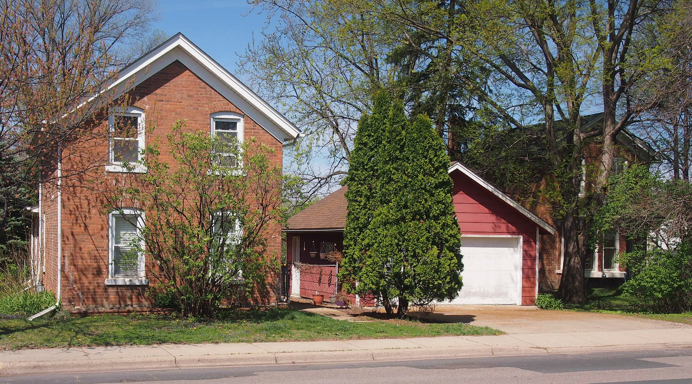 Early Shakopee Houses, 411 & 419 E 2nd Ave, Shakopee, Minnesota, USA. Viewed from the south.